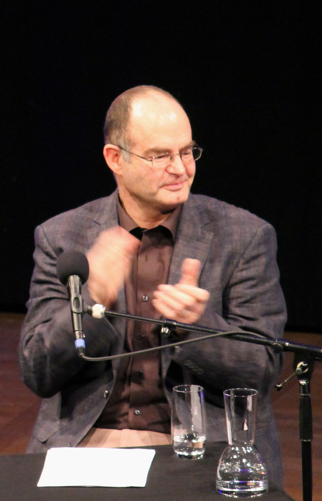 German actor Martin Reinke at a reading during Lit.Cologne 2013